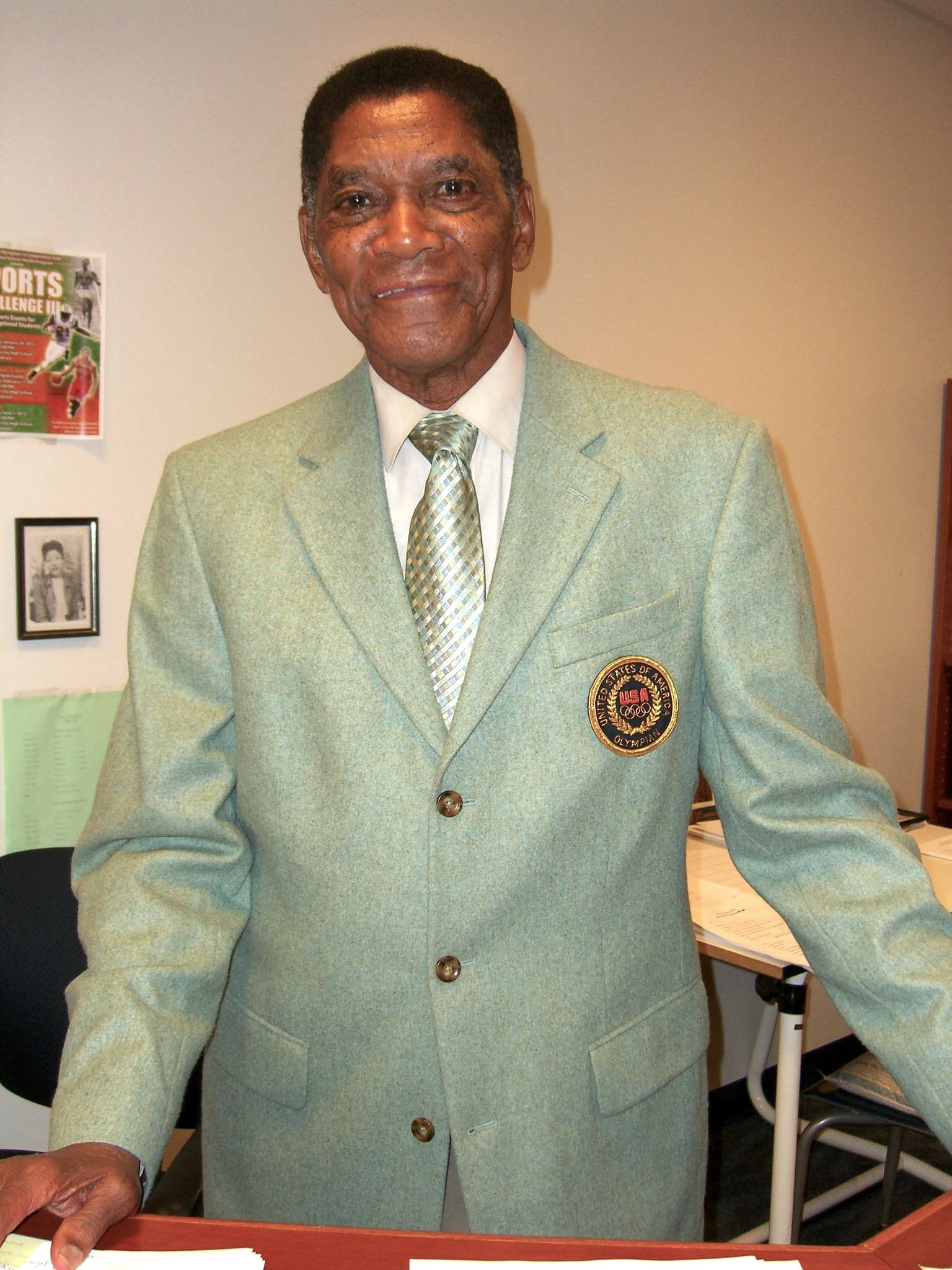 Two-time Olympic gold medal winner Otis Davis at Union City High School in Union City, New Jersey, where he works as a verification officer, coach and mentor. This photo was created by Luigi Novi. It is not in the public domain, and use of this file outside of the licensing terms is a copyright violation.